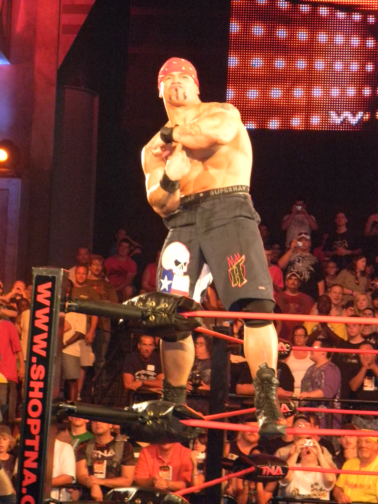 Hernandez poses for the cameras and fans before a match against Samoa Joe